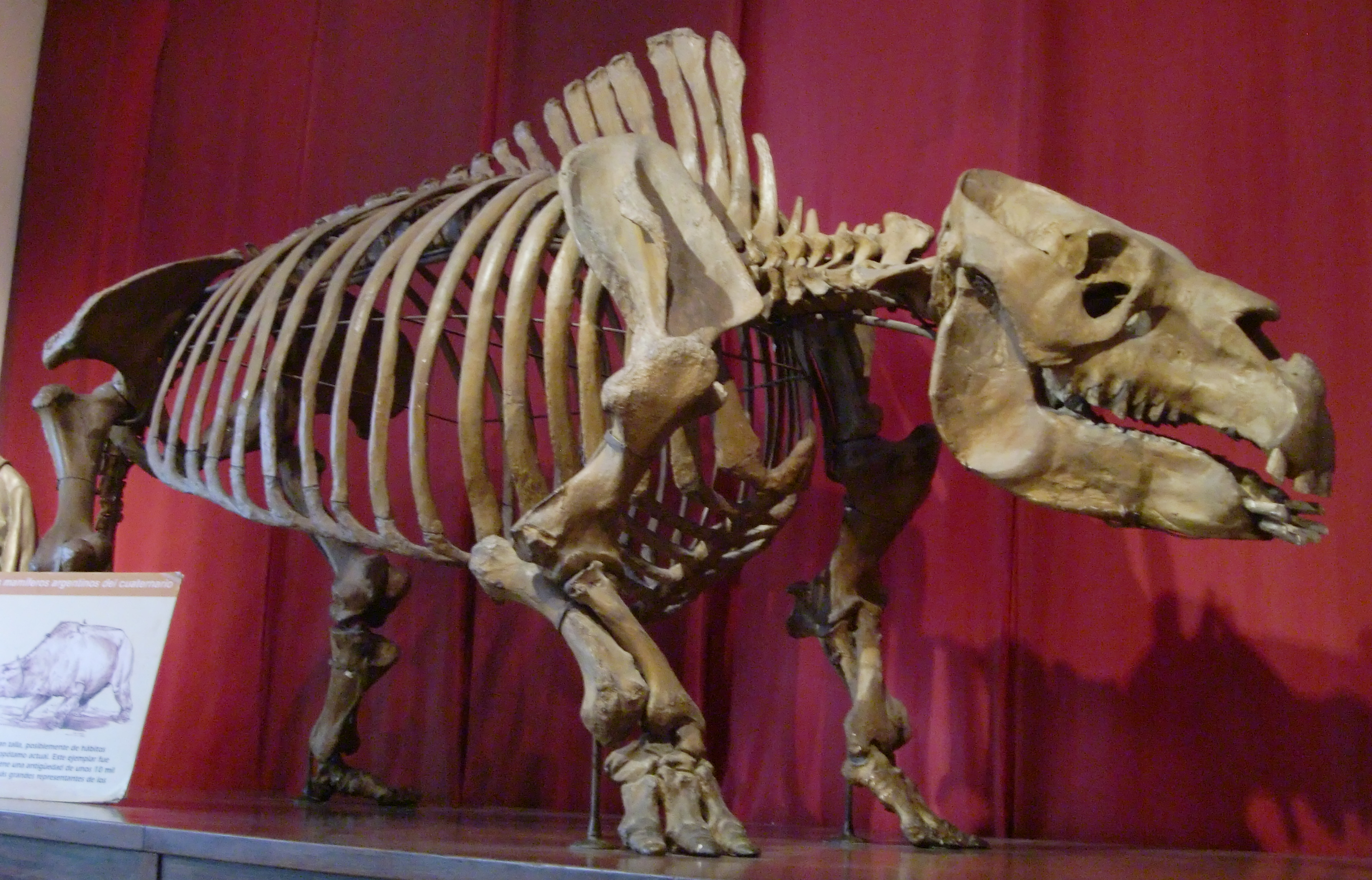 fossil toxodon on display at Bernardino Rivadavia Natural Sciences Museum with thanks to the museum for allowing photography